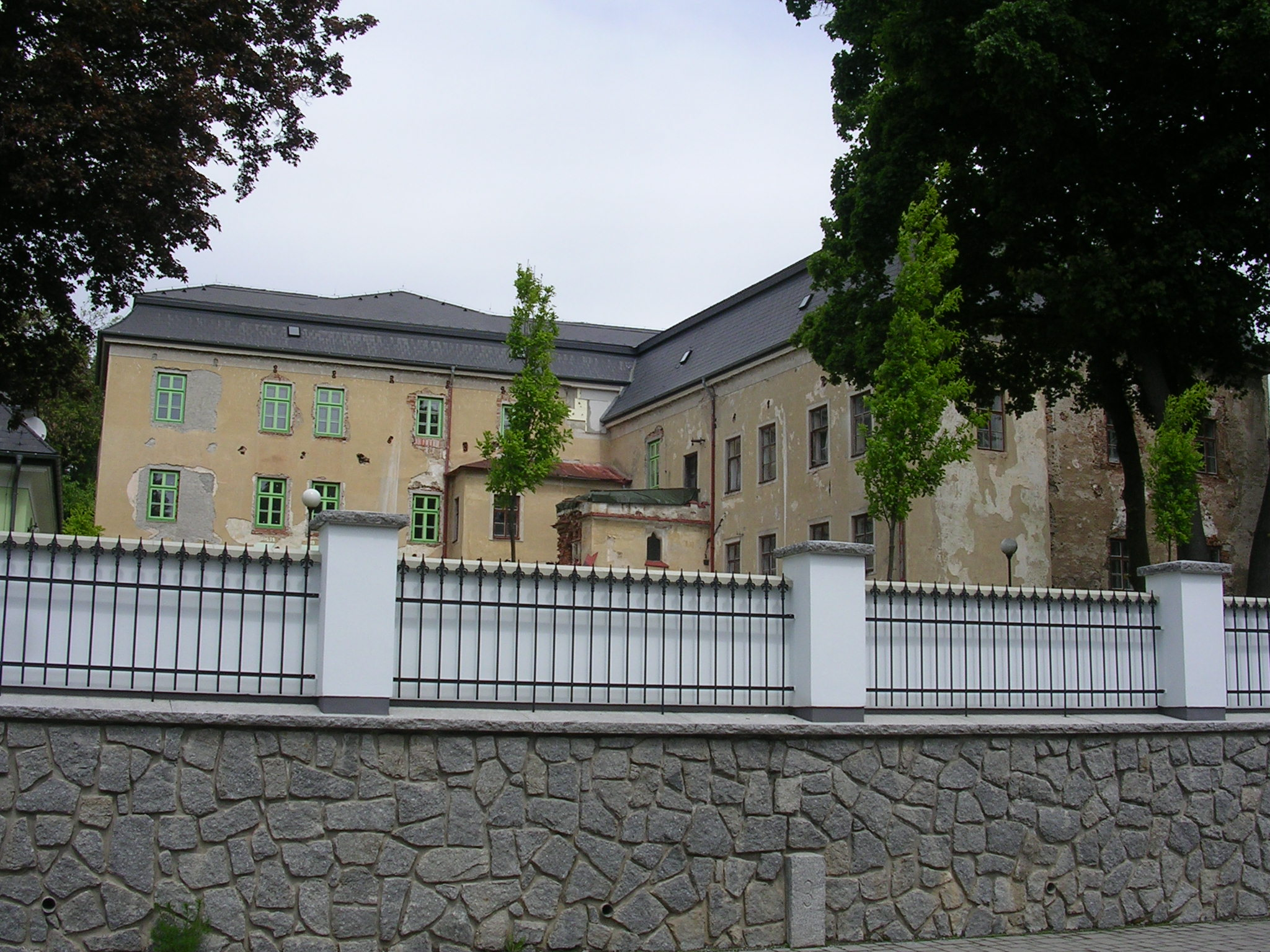 Neustupov, Benešov District, Central Bohemian Region, the Czech Republic. A castle.